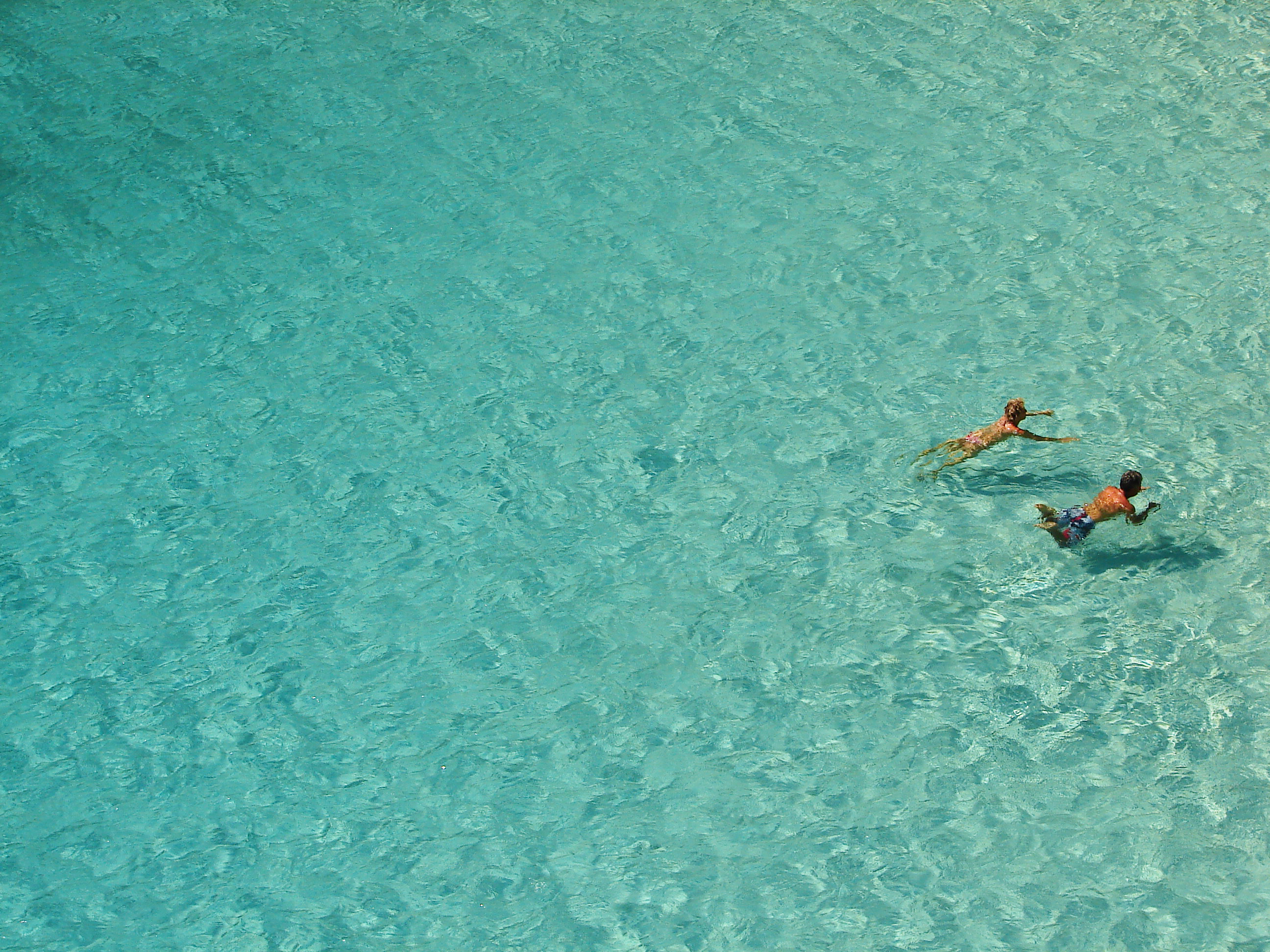 Two people swimming in a vast turqoise sea. Cala Macarelleta (Menorca), agost 2006.